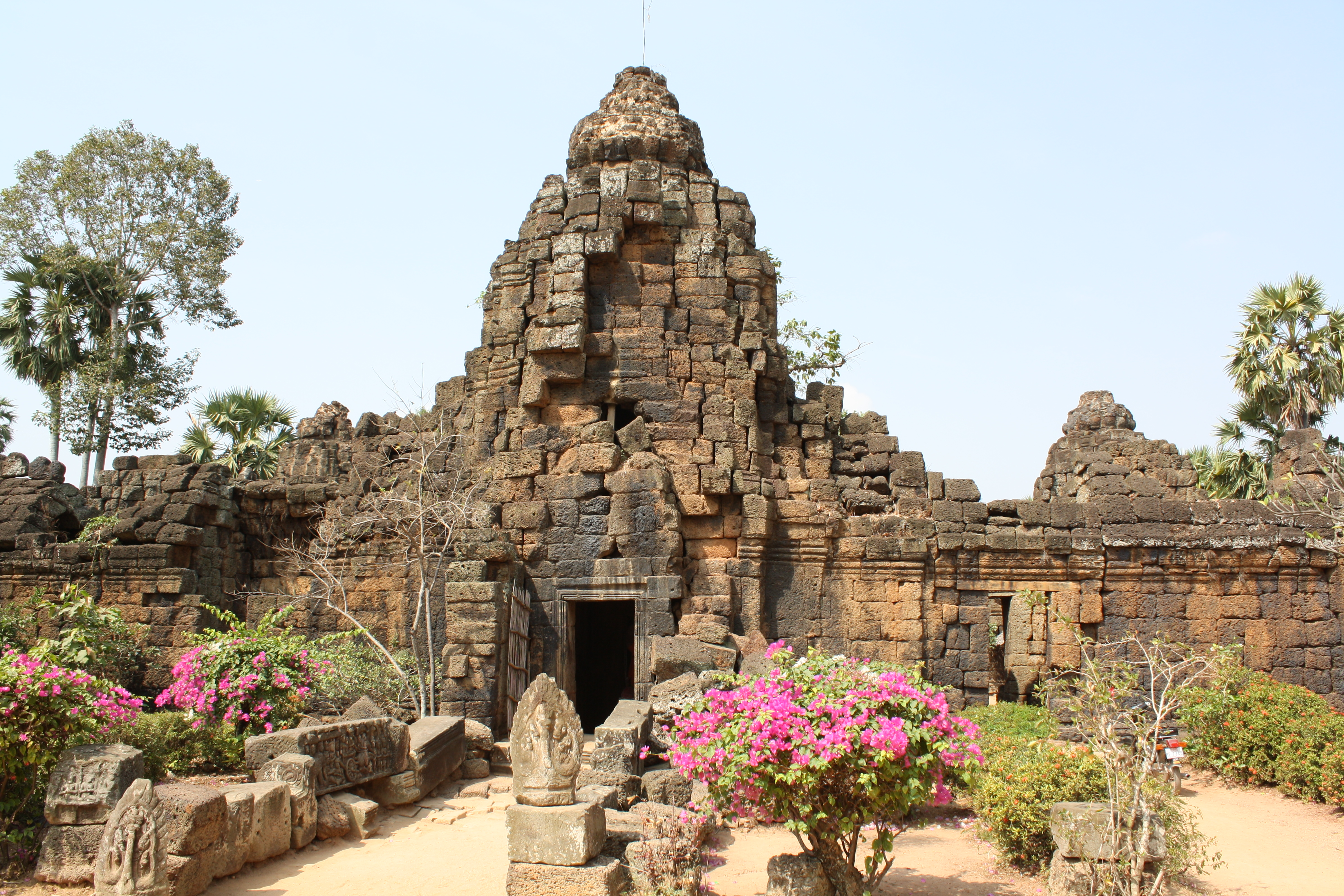 Ta Prohm temple, Takeo province, Cambodia